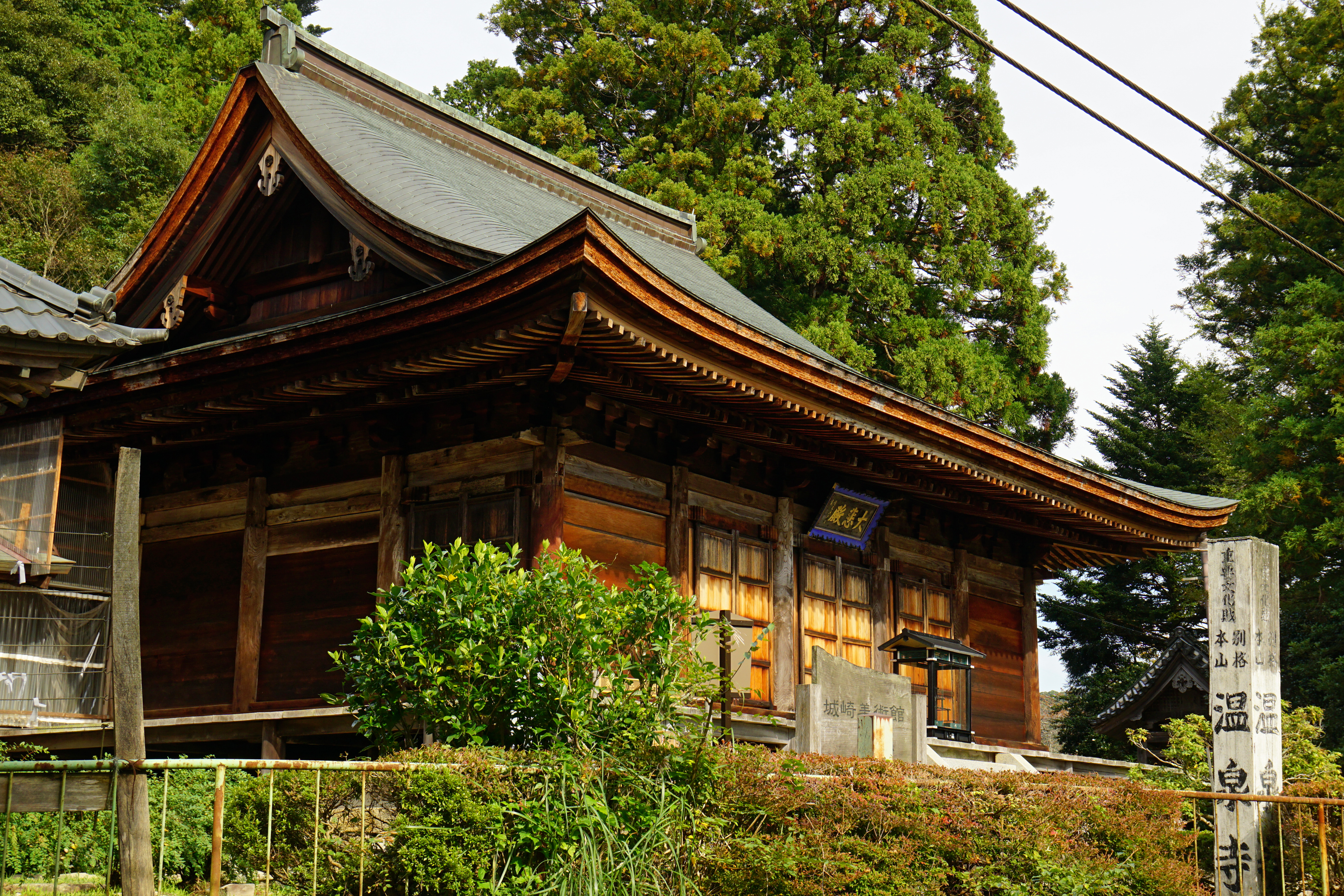 Onsen-ji in Toyooka, Hyogo prefecture, Japan.